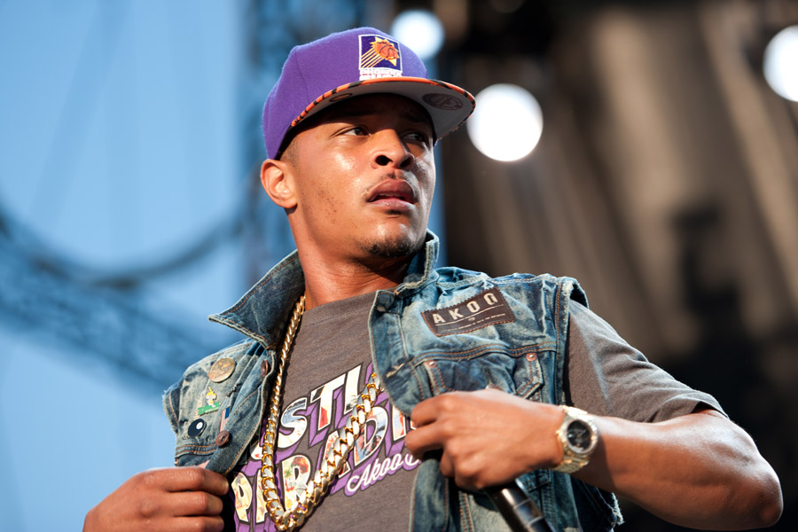 " and link the text to .